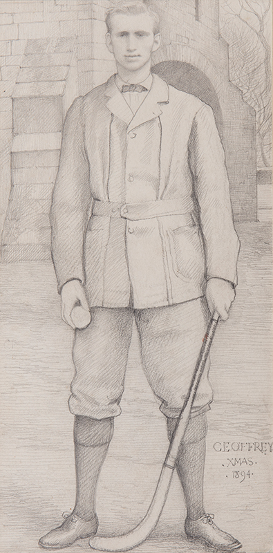 Offered for sale by Abbott and Holder in February 2020 when it was described as "‘Geoffrey’, the artist’s son Hon. Geoffrey Howard (1877-1935) Pencil. Signed and dated, 1894. Exhibited: Julian Hartnoll. 14x11 inches. Framed: 21x18 inches.